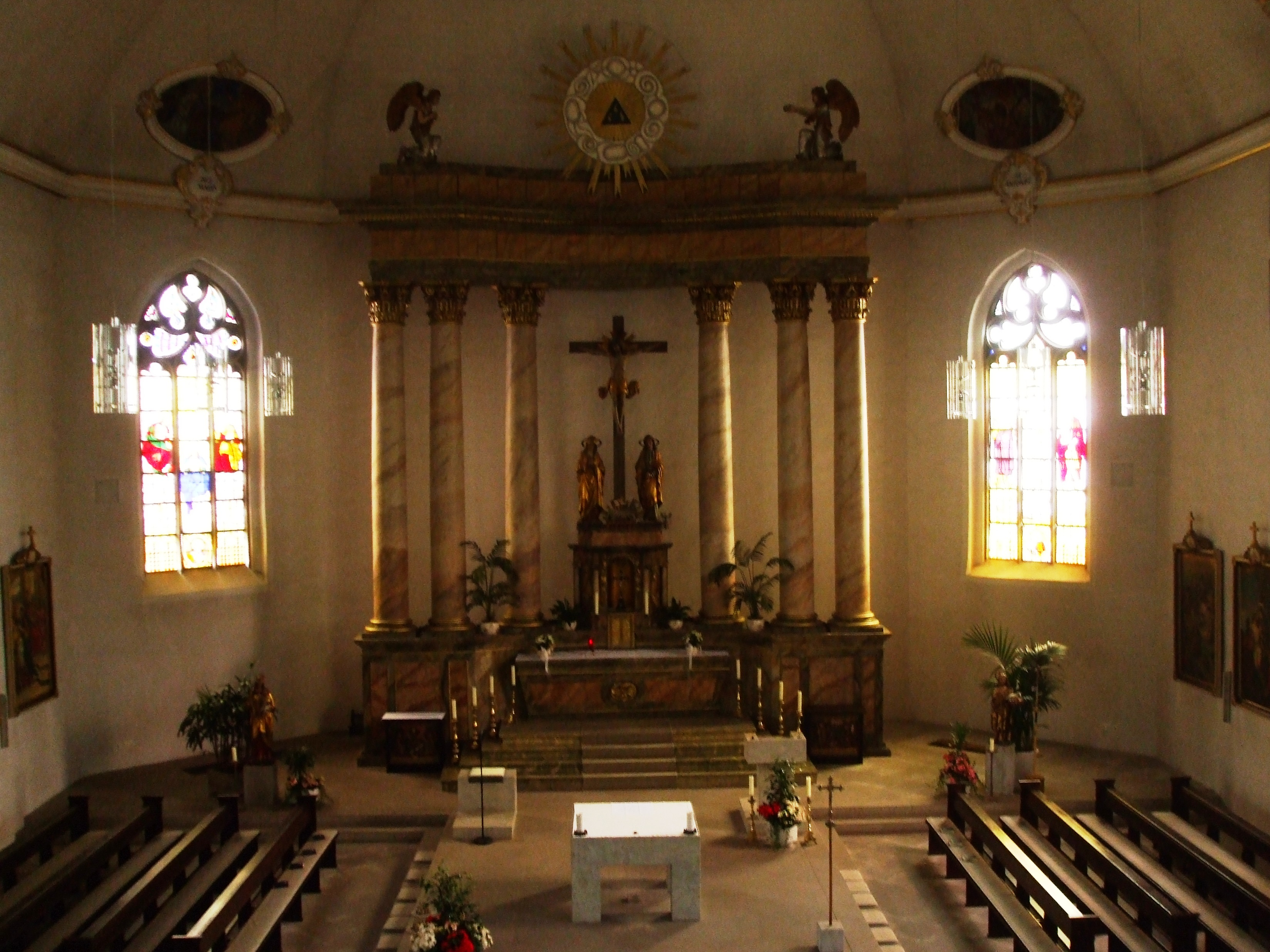 St. Johannis Glandorf - View to the choir